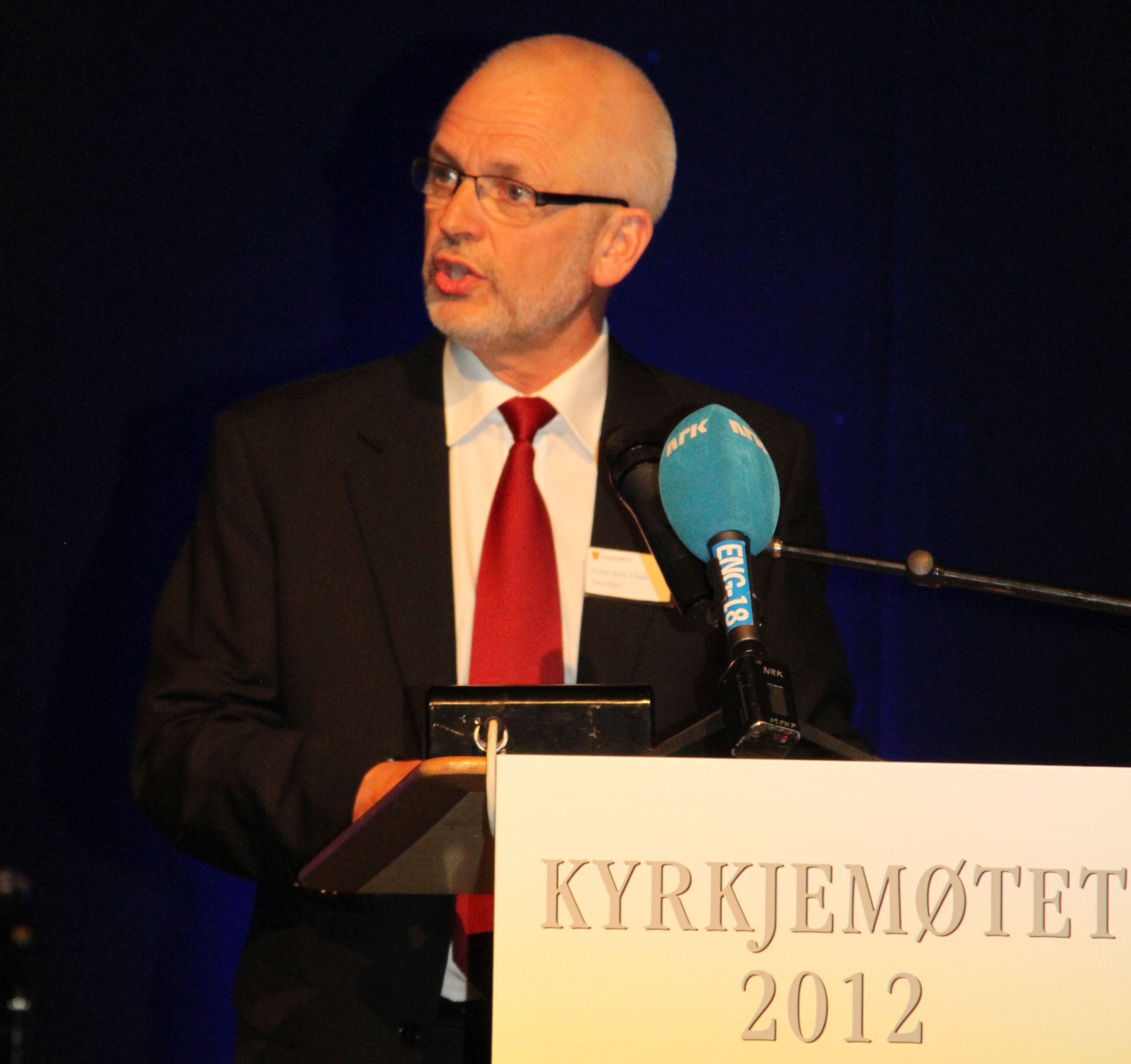 Svein Arne Lindø at Kirkemøtet 2012